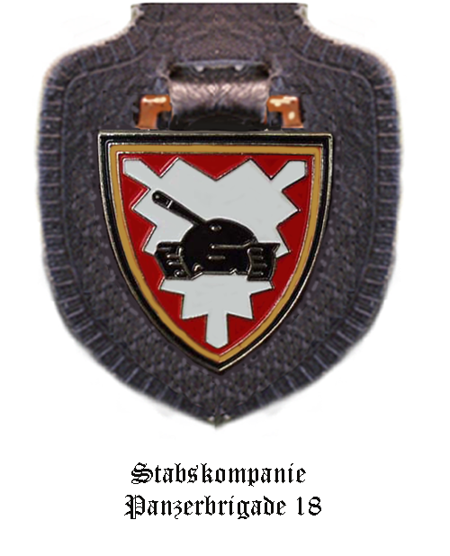 Internal coat of arms Stabskompanie Panzerbrigade 18 (StKp PzBrig 18) of the Bundeswehr (Armed Forces of the Federal Republic of Germany). → Remarks on naming and categorization scheme